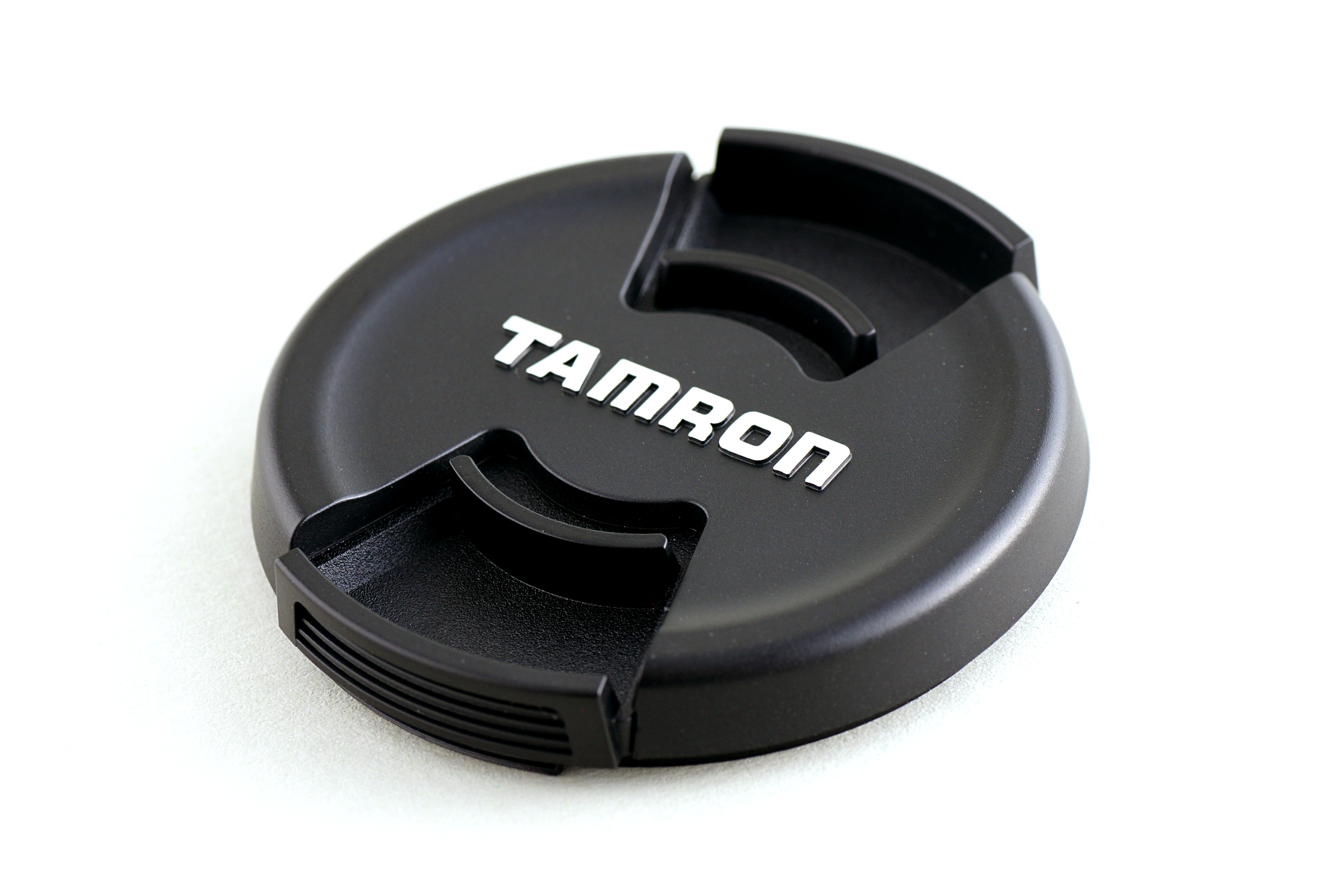 The lens cap from a Tamron 90mm Macro lens.